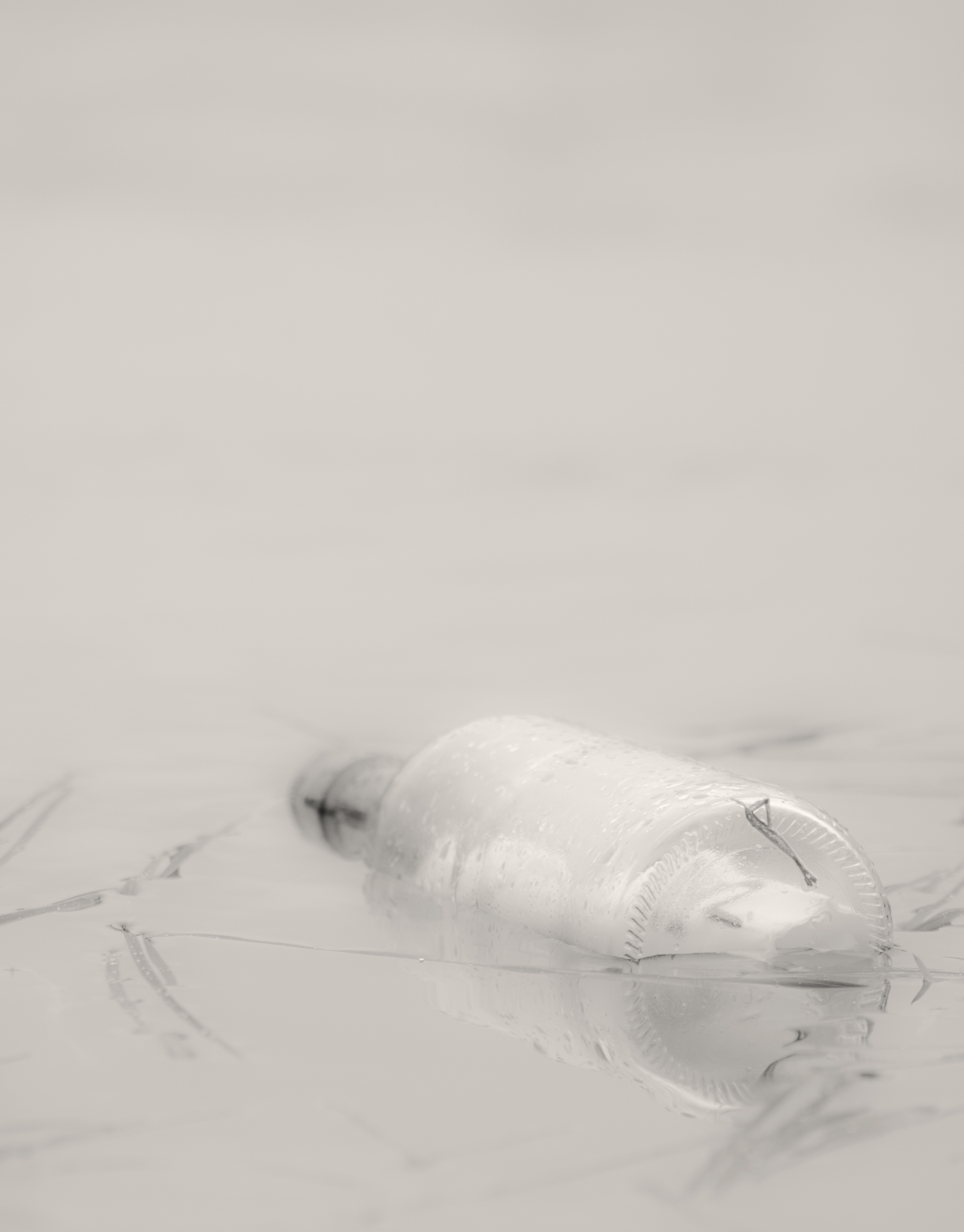 Message in a bottle.